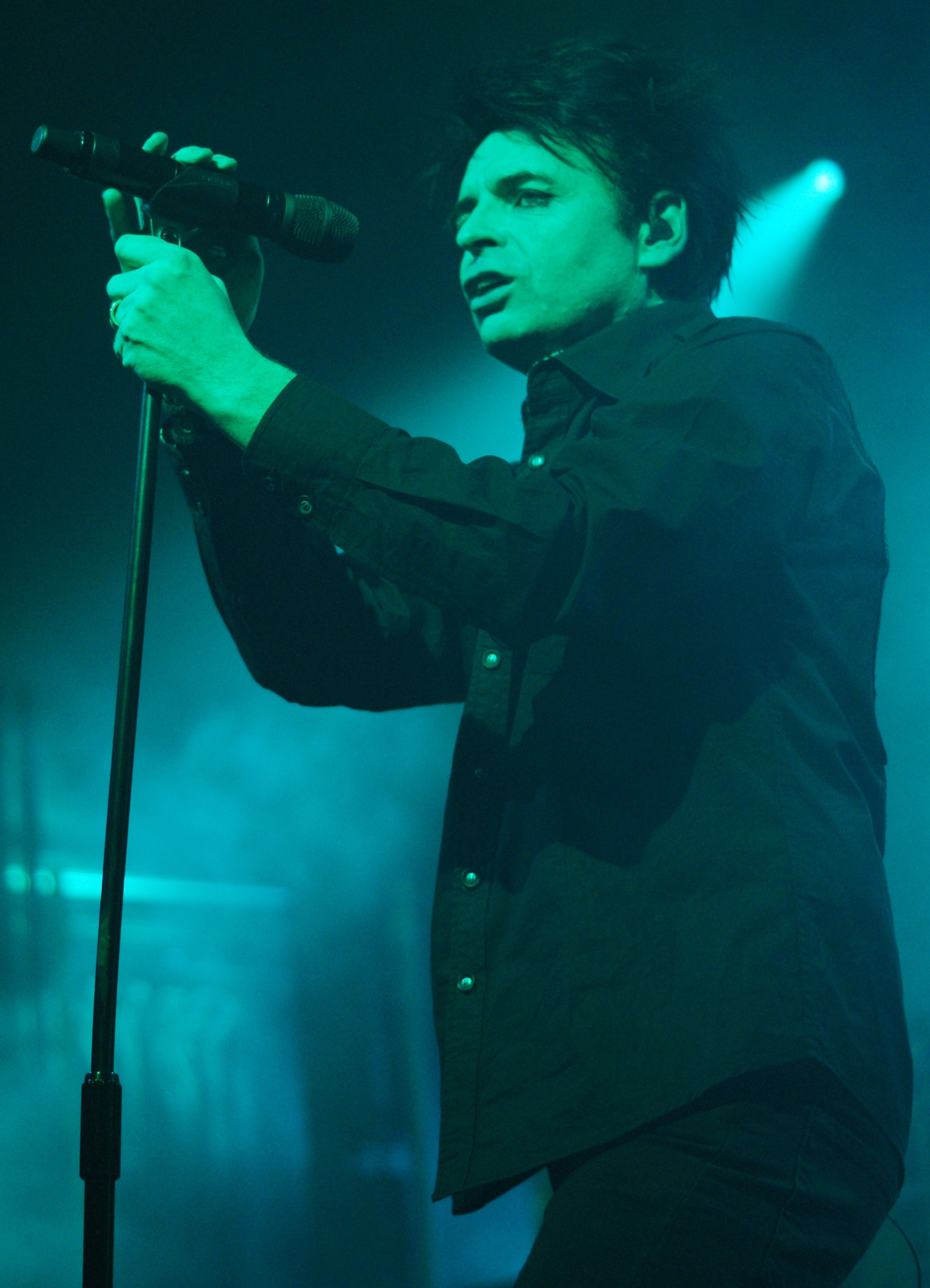 Gary Numan performing in Manchester, 2011.